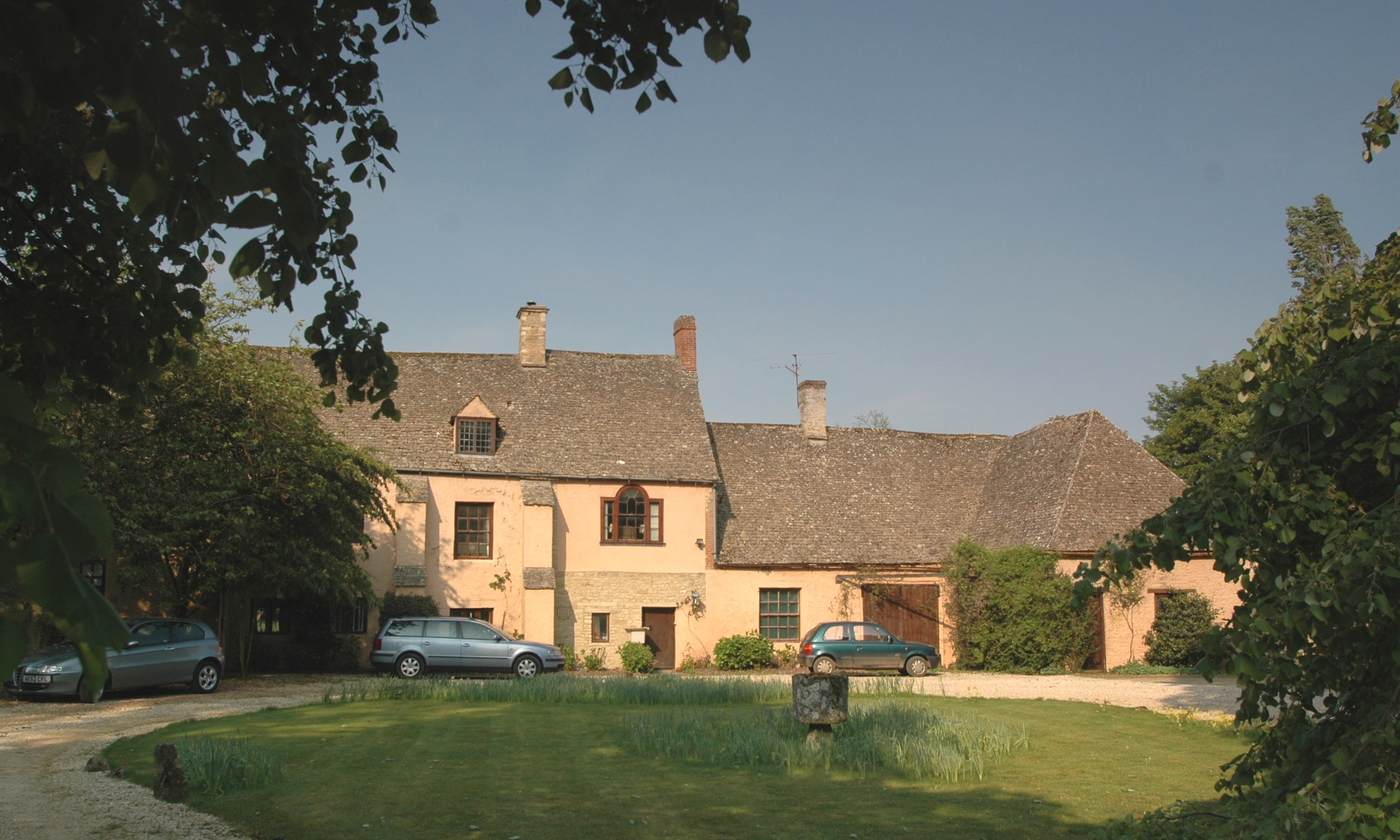 Part of Wilcote Manor house, Wilcote, Oxfordshire, viewed from the east.